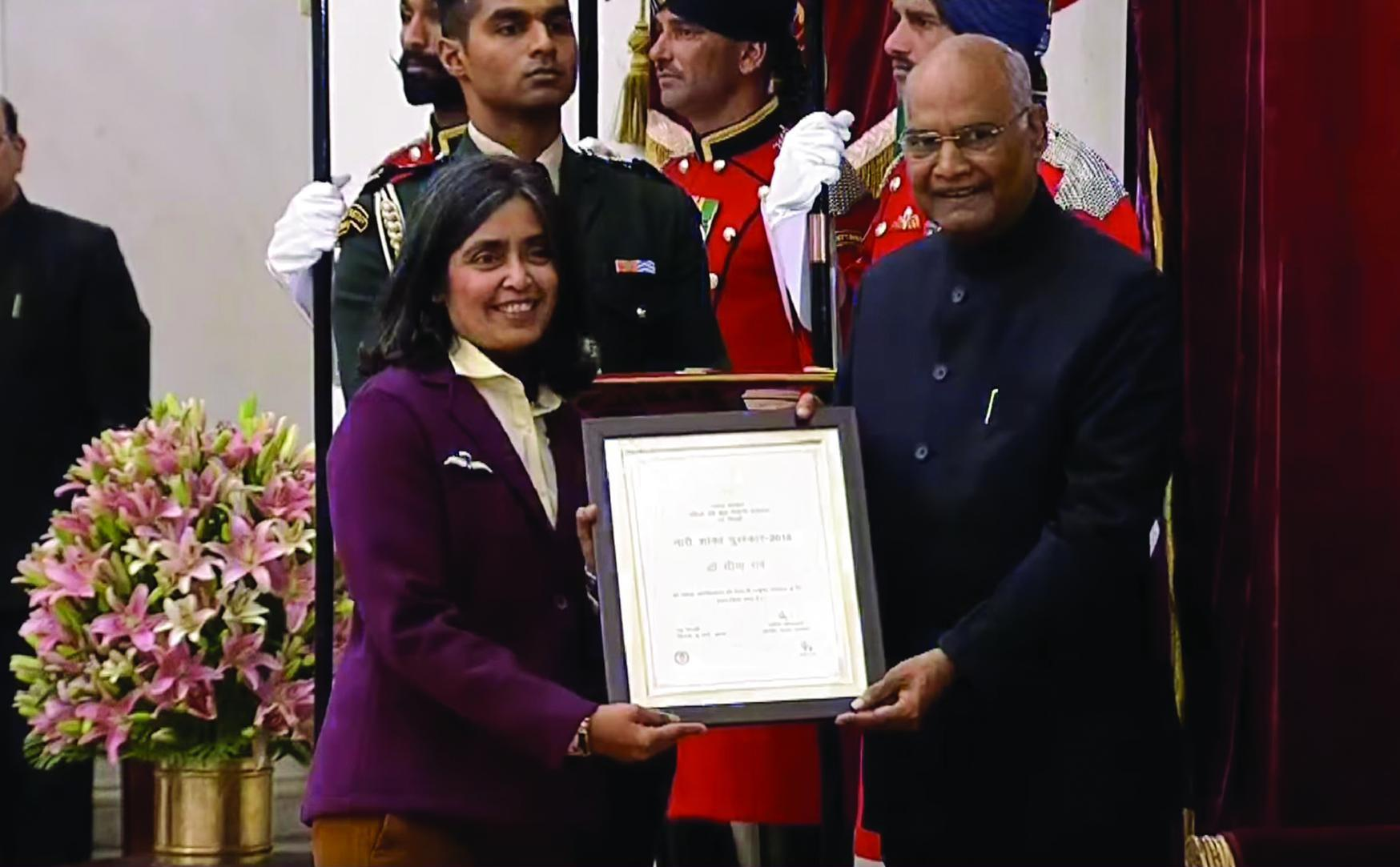 President of India awarding Nari Shakti Puraskar (India's highest civilian award for women) to Dr. Seema Rao